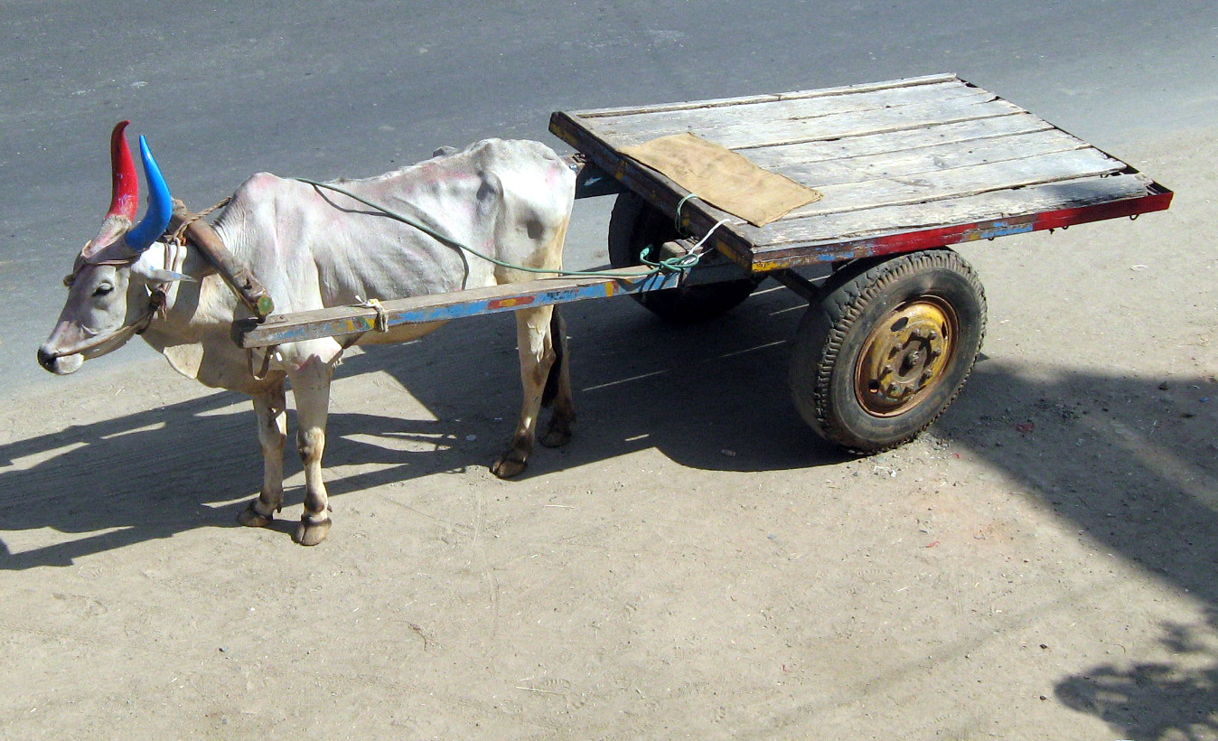 a bullock cart of Tamil Nadu, India